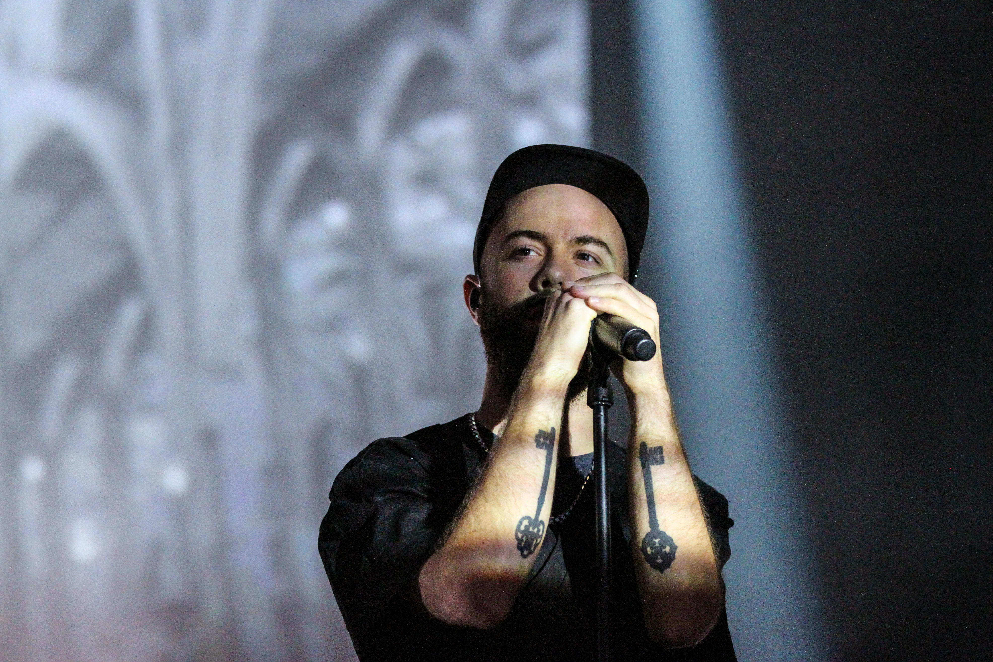 Woodkid performing at Melt! Festival 2013